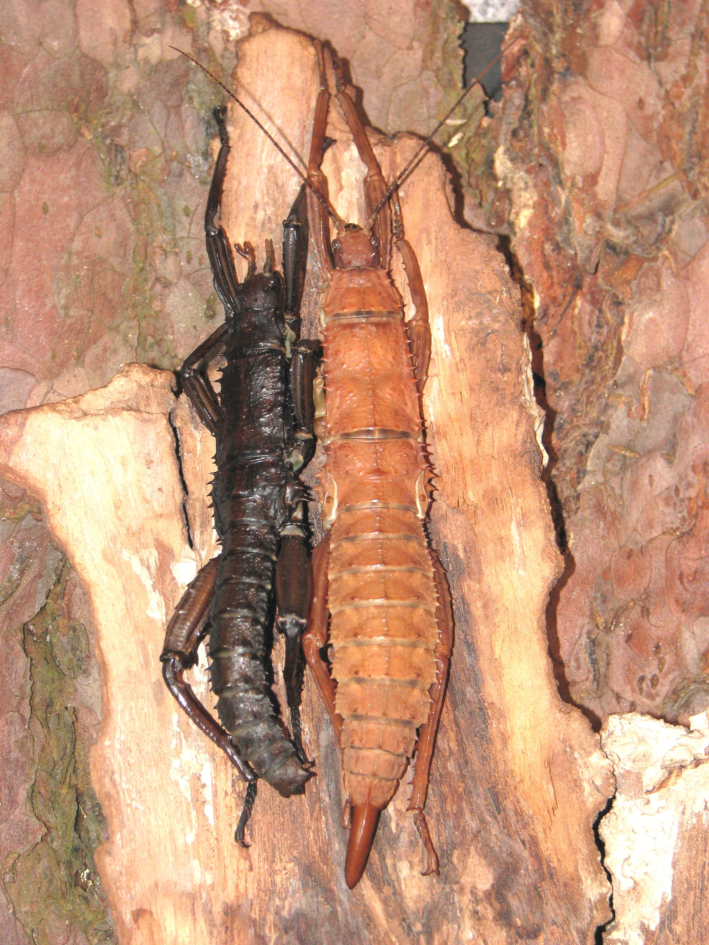 Eurycantha calcarata, Pair (male black with left antennas)